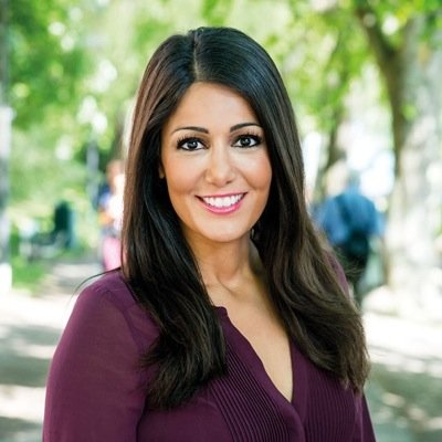 Tina Ghasemi